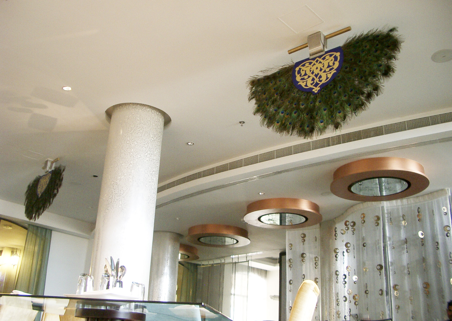 Two computer controlled Punkah ceiling fans with blades made from peacock feathers